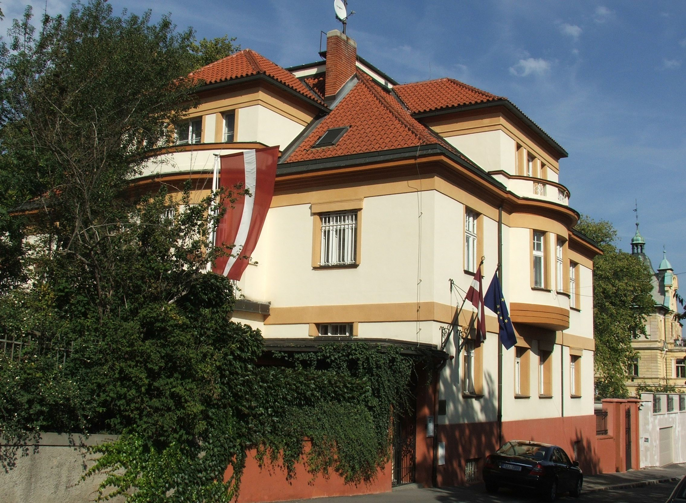 Embassy of the Republic of Latvia in Prague - Vinohrady, Czechia.